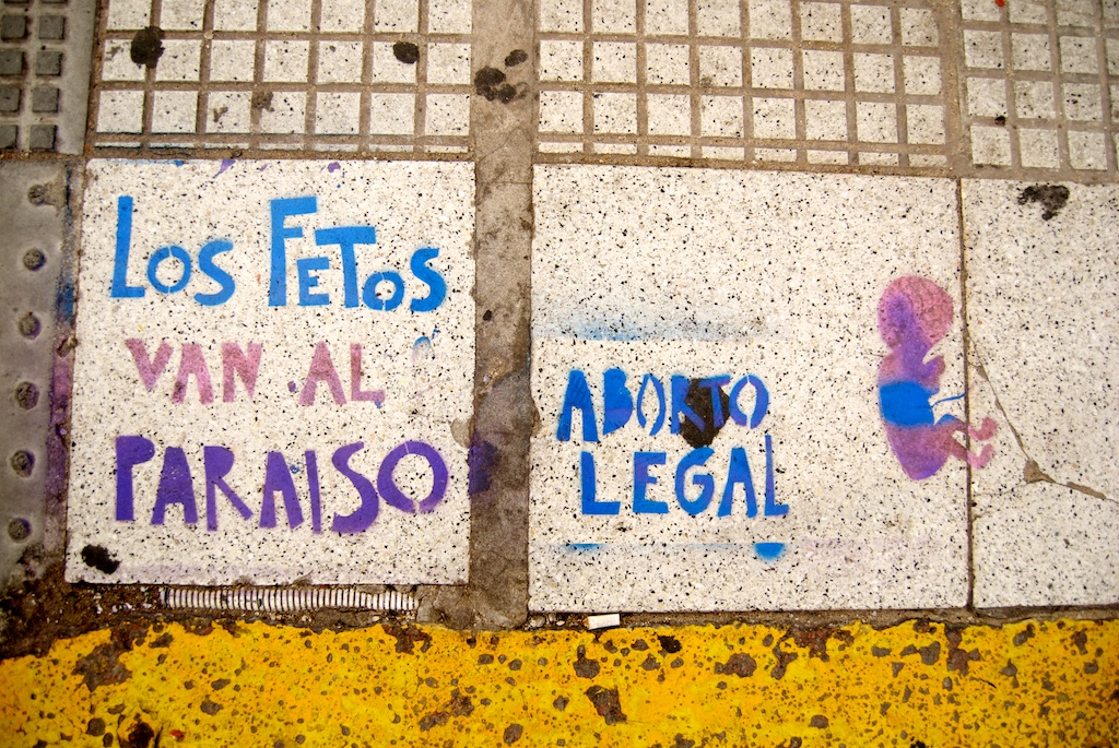 The words translate to "fetuses go to paradise, legal abortion." This art is advocating for abortion rights in Argentina.